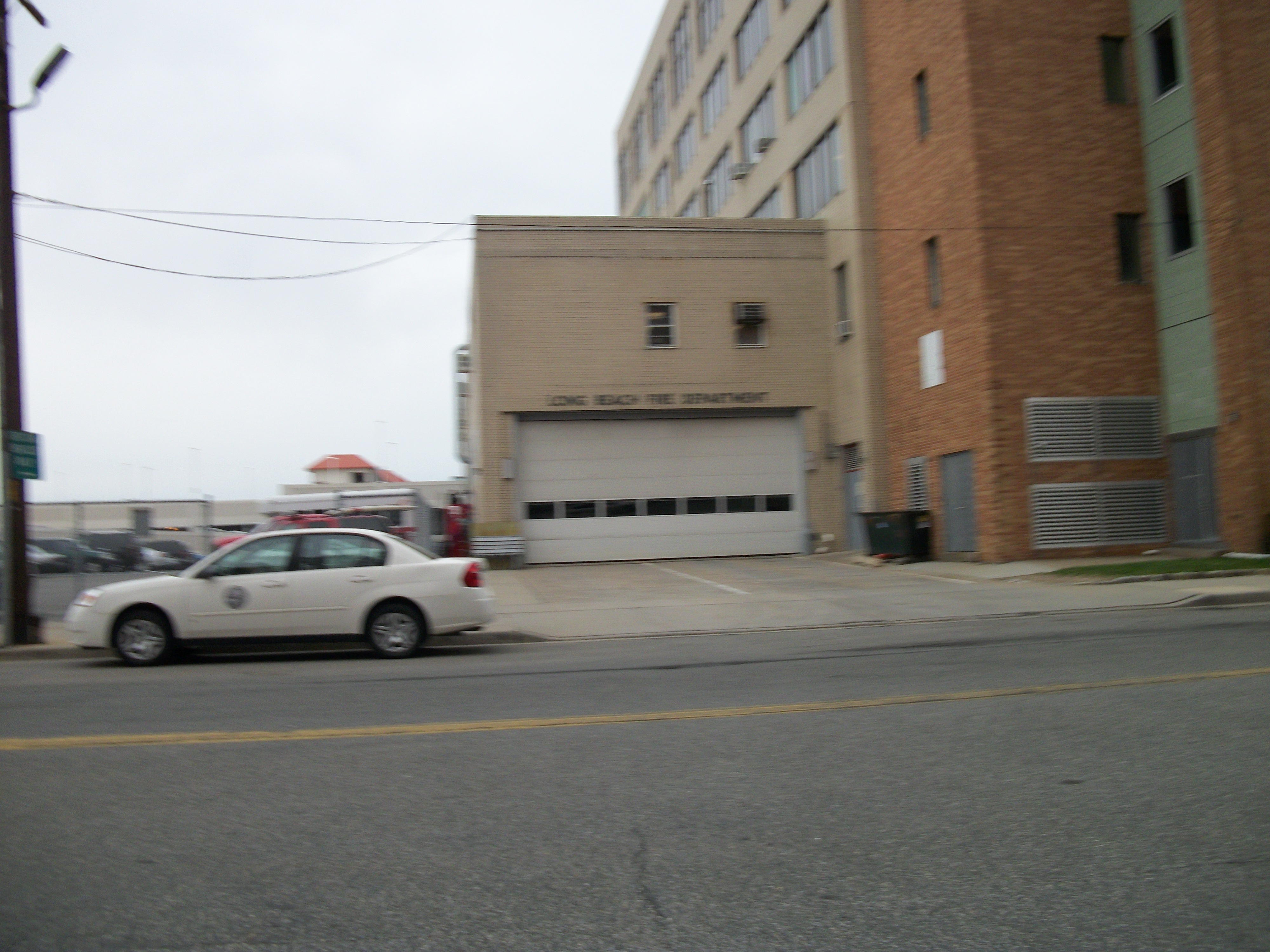 The headquarters of the Long Beach, New York Fire Department behind the City Hall.